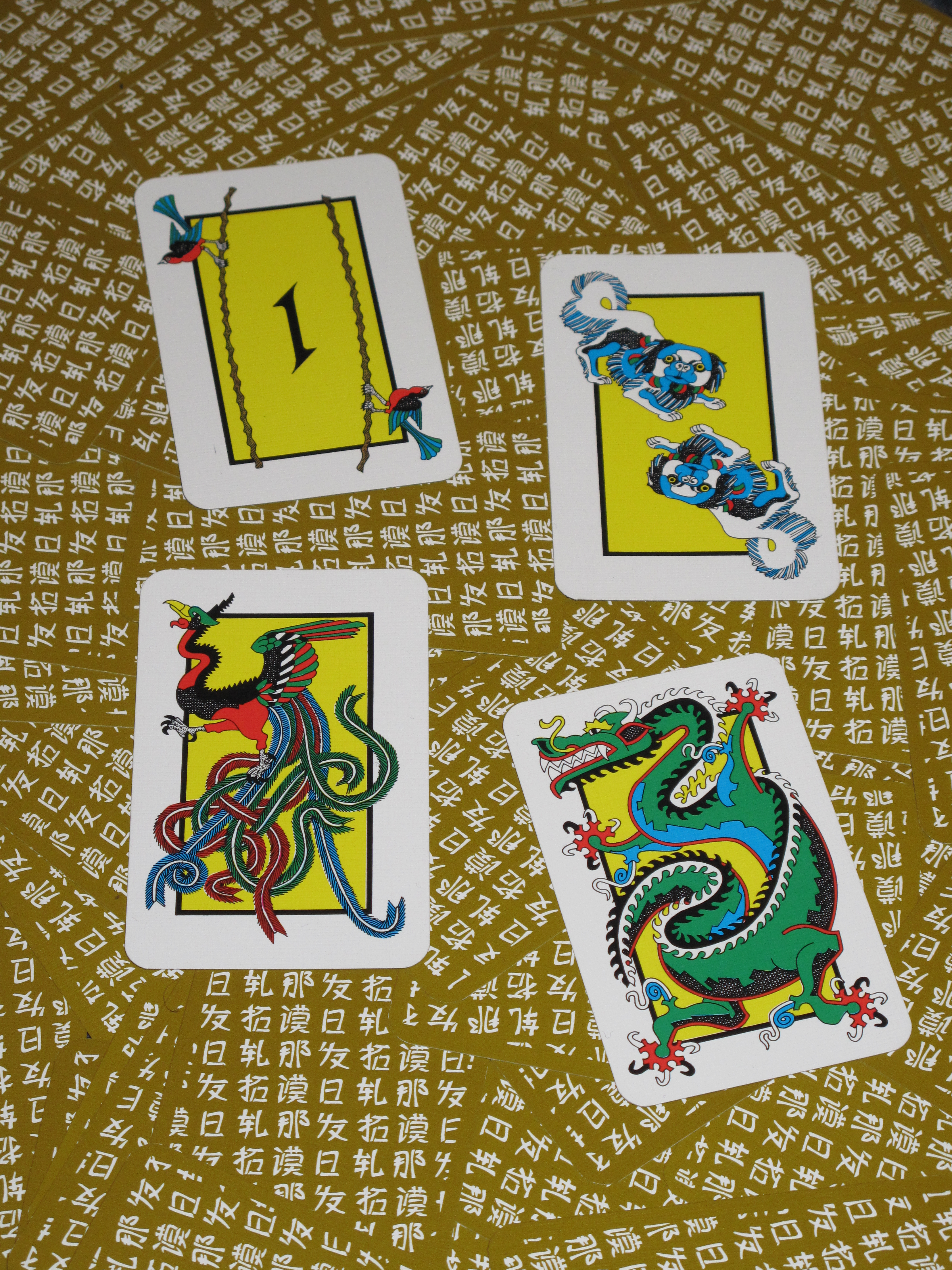 Tichu card game special cards (Mah Jong, Dog, Phoenix, Dragon)